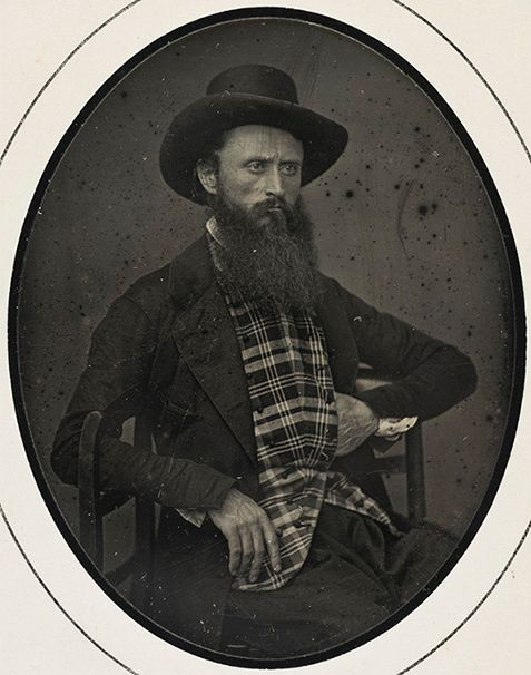 A photograph of Adam Piotr Mierosławski (1815-1851), Polish sailor, engineer; Paris 1849.